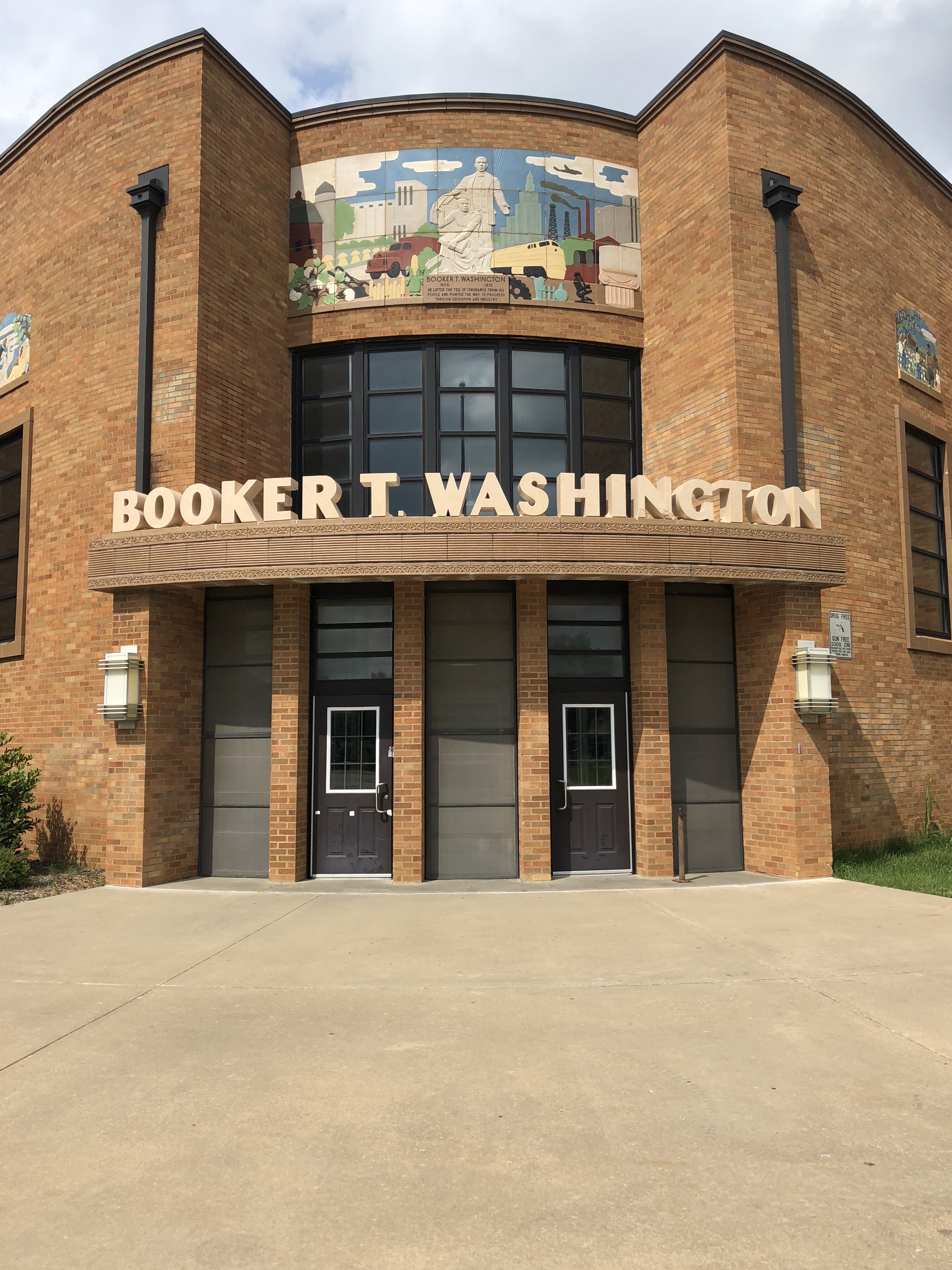 The original facade of Booker T. Washington High School in Tulsa, Oklahoma. This structure is now colloquially known as the "Historical Building" and houses memorabilia and momentoes from the school's rich past.